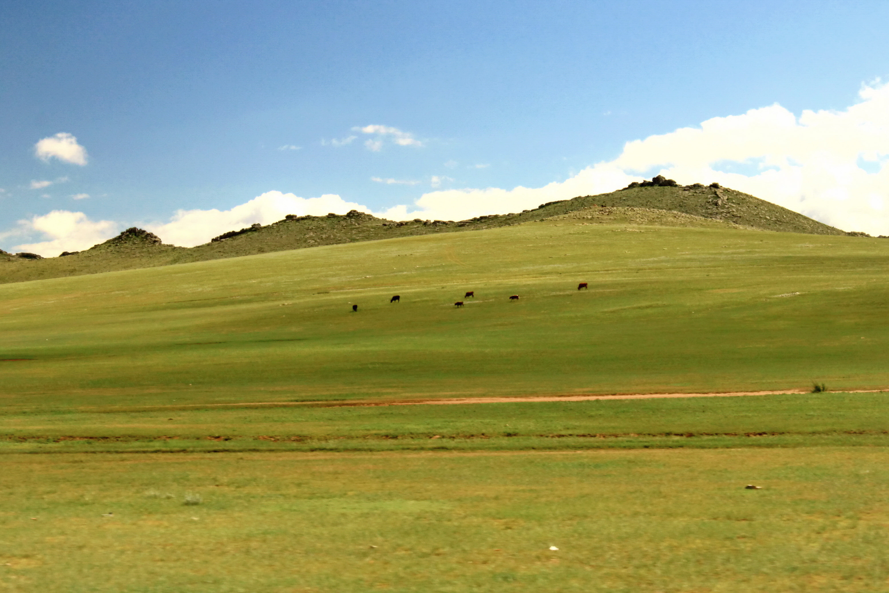 Steppe in the central Mongolia on the road between Ulan Bator and Kharkhorin.